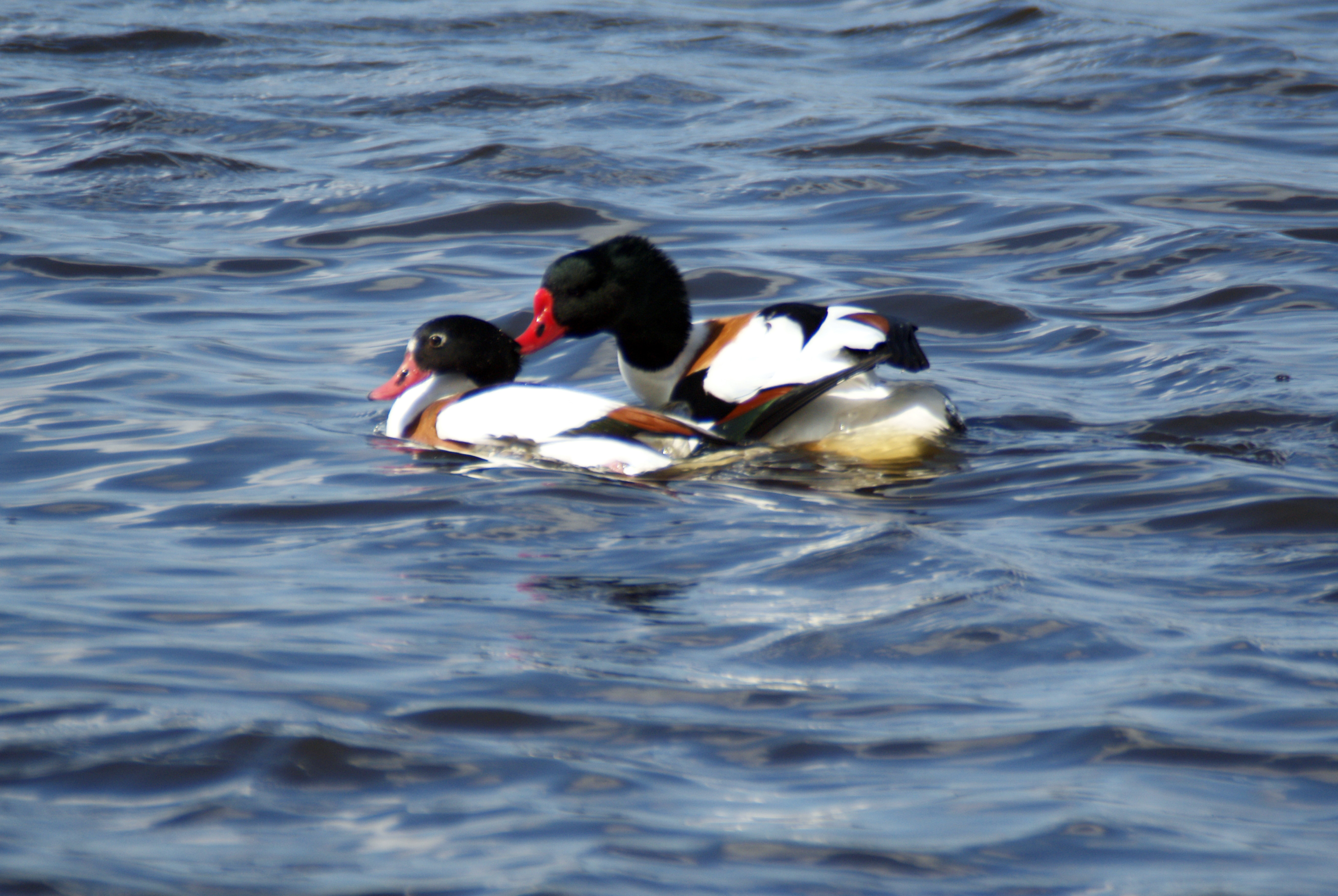 Common shelduck (Tadorna tadorna) mating. Taken in Lancashire , England.